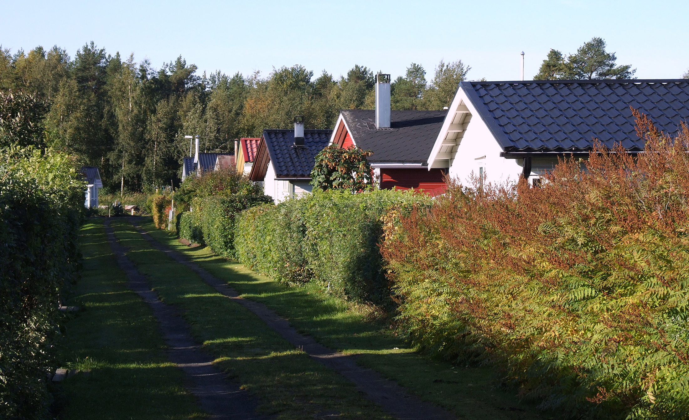 Garden allotments at Äimärautio, Oulu, Finland.